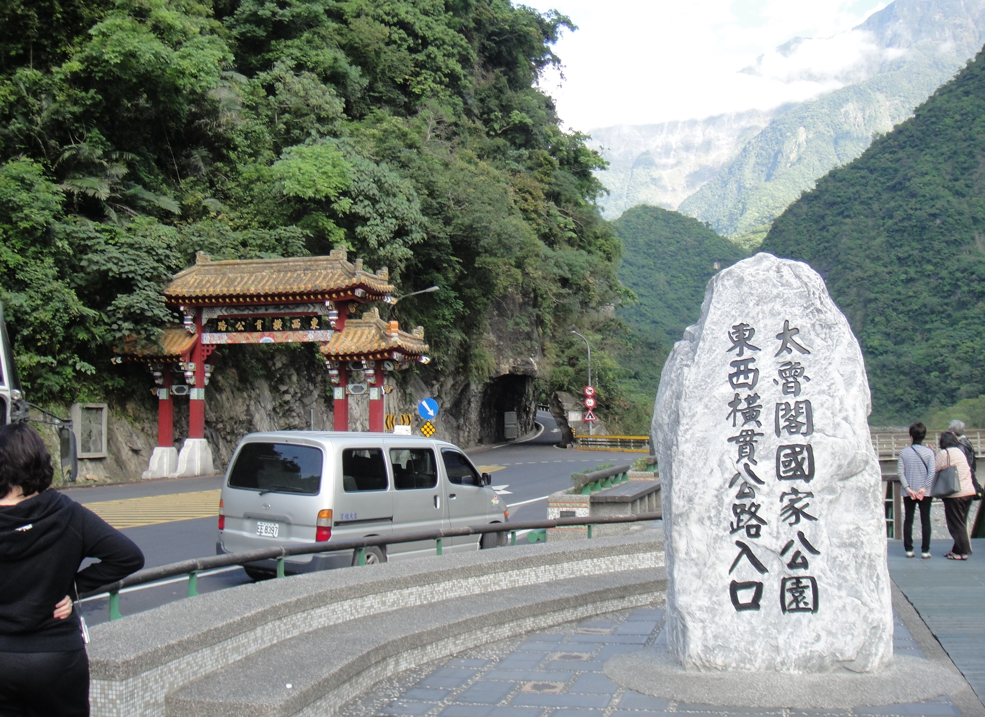 Entrance to Taroko National Park中文（中国大陆）: 太鲁阁国家公园东西横贯公路入口